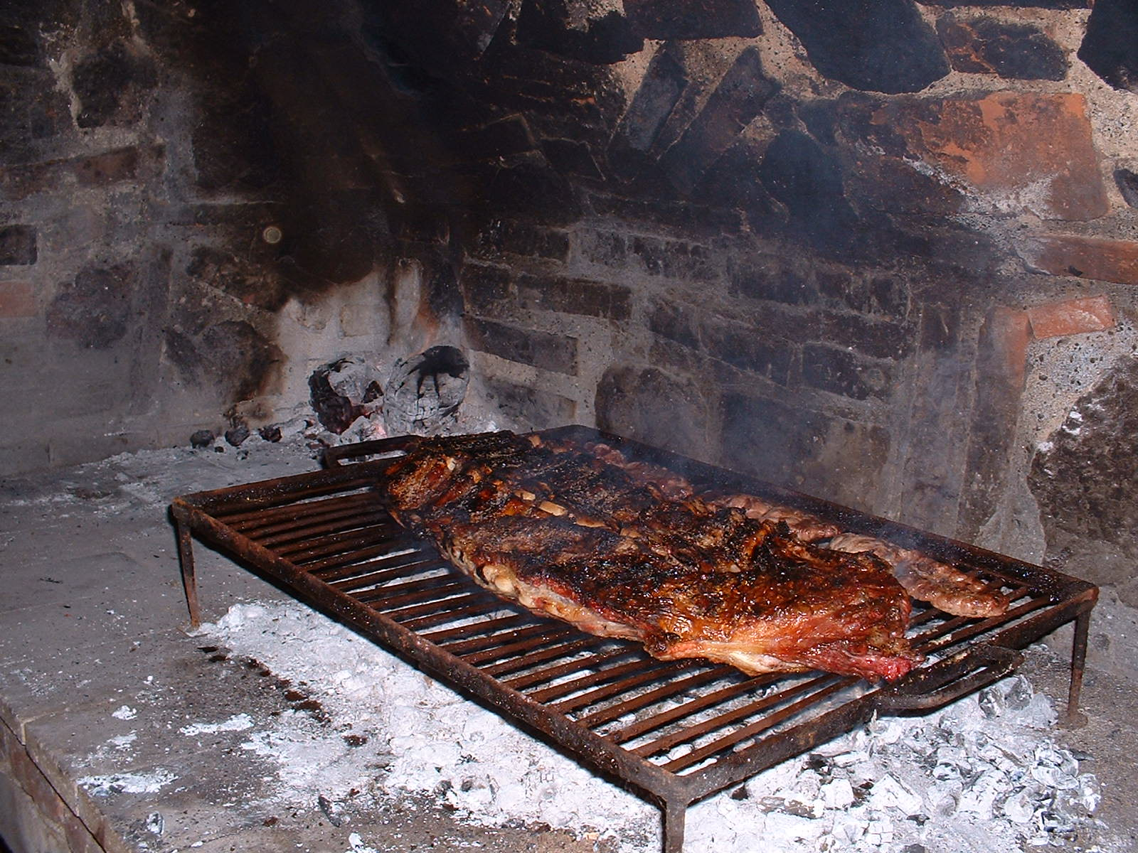 This is a traditional asado. The picture shows ribs grilled in the traditional Argentinean way. The meat is on top of the grill and the charcoal or wood at low fire under the grill.